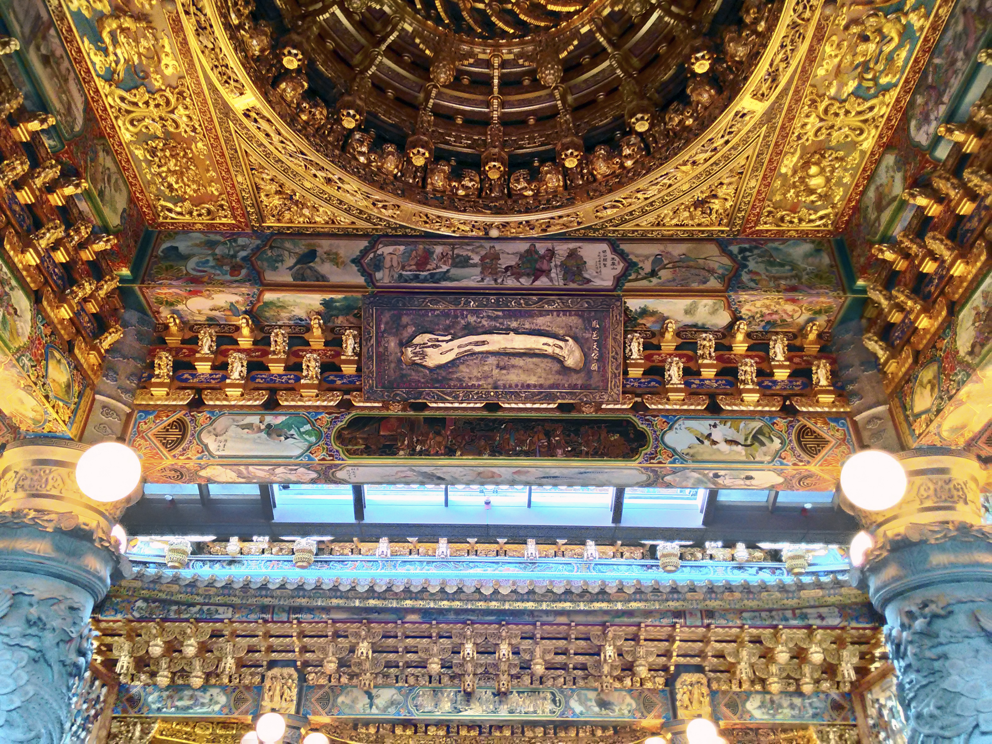 一字匾位於鳳山天公廟二樓